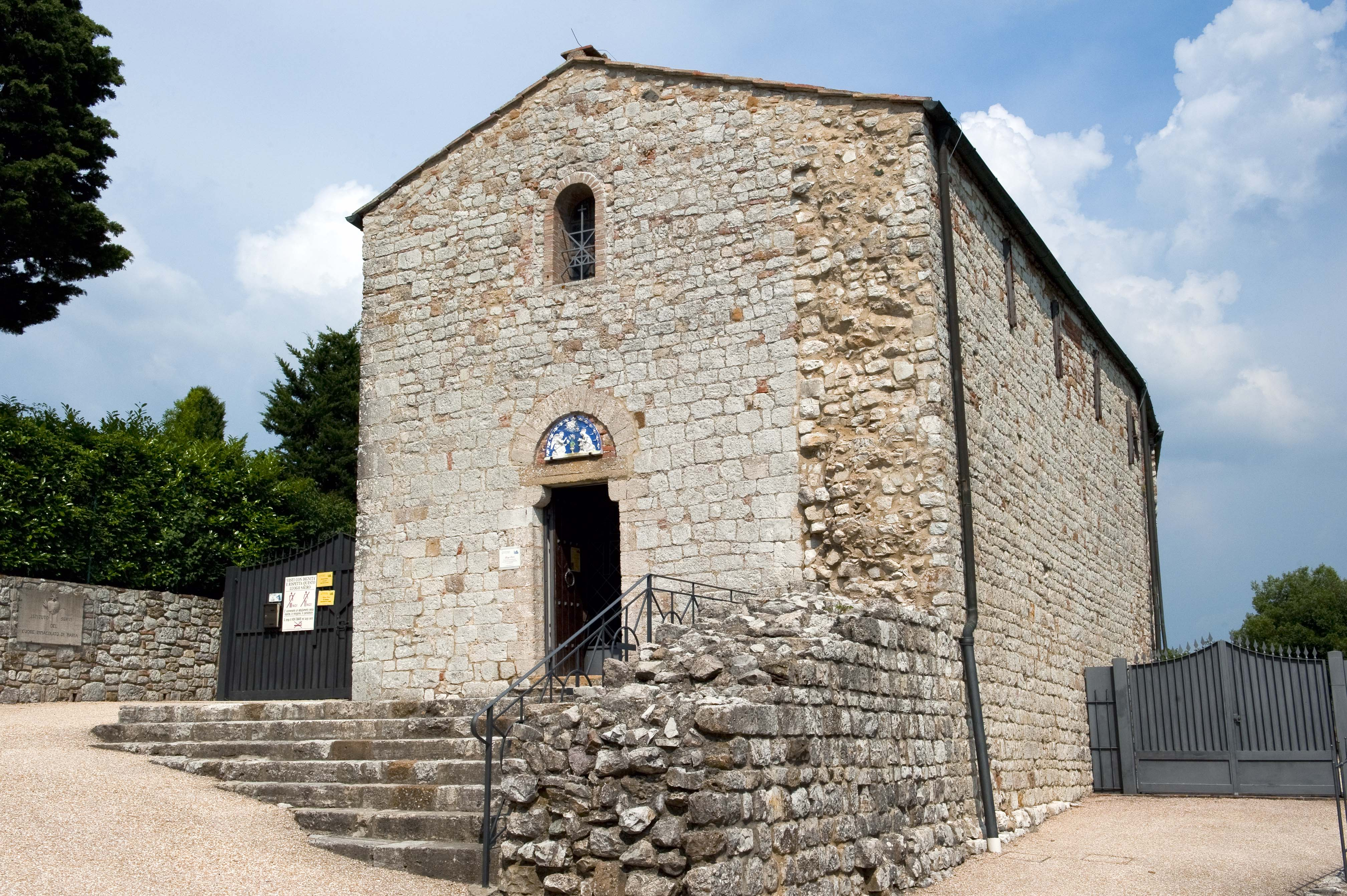 Front of the Pieve (Church) of San Frediano, Montignoso, Gambassi Terme